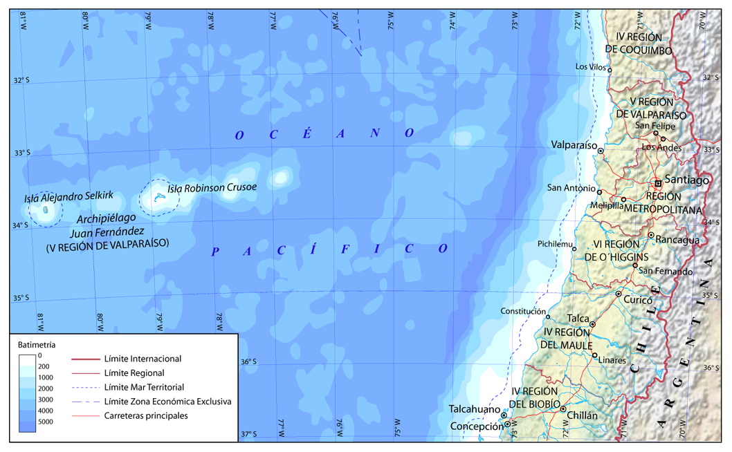 Map showing Juan Fernández to continental Chile. Bathymetric contours and continental colours from Natural Earth data. Main cities and roads.